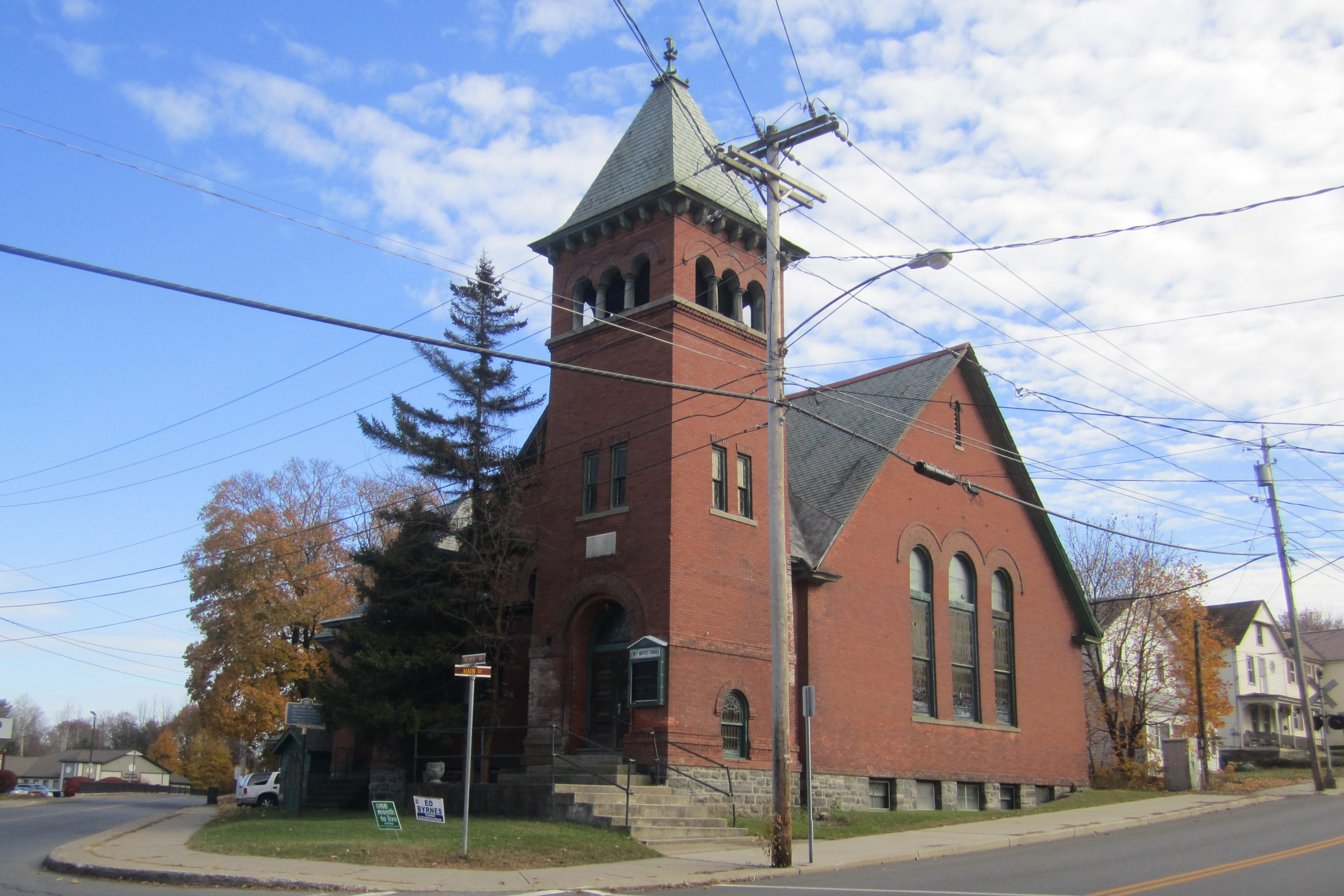 First Baptist Church, corner of Main St. and Palmer Ave, Corinth, NY (1898). Designed by R. Newton Brezee.